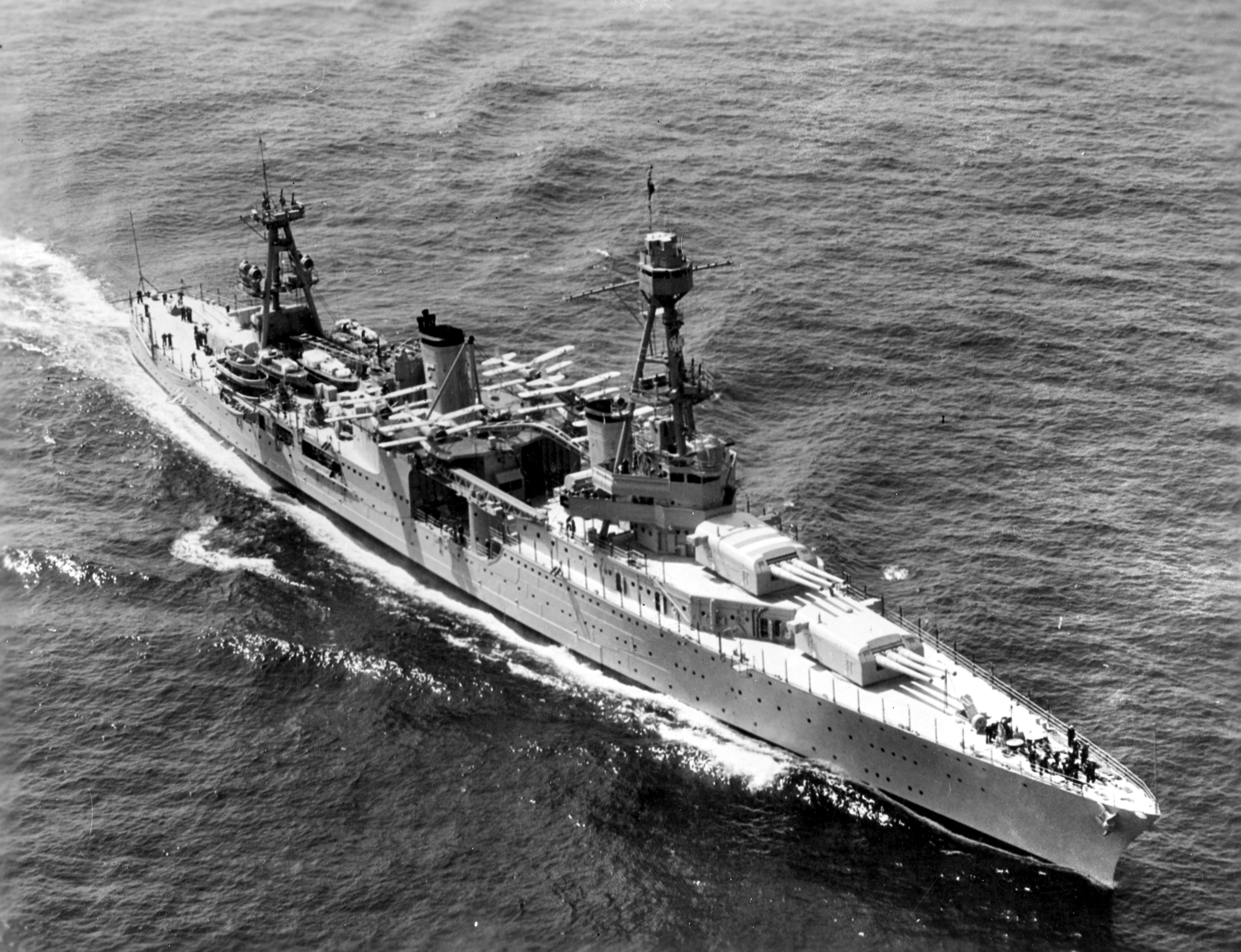 The U.S. Navy heavy cruiser USS Chicago (CA-29) underway off New York City, during the 31 May 1934 fleet review.